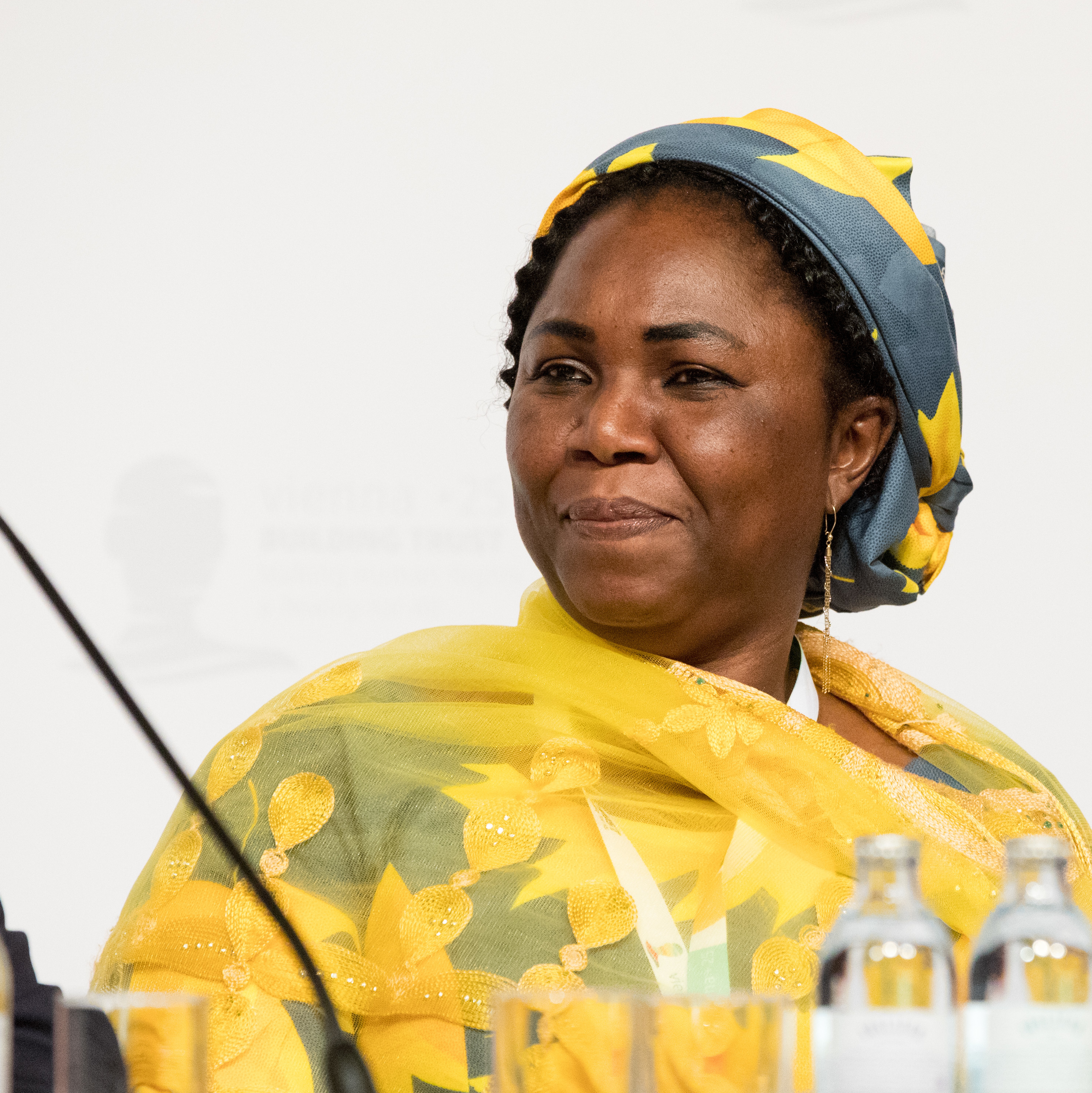 Vienna+25- Building Trust – Making Human Rights a Reality for All (C) Rauchenberger - Wien 22.05.2018 - Außenministerin Karin Kneissl lud heute gemeinsam mit dem Hochkommissar für Menschenrechte der Vereinten Nationen zur zweitägigen Konferenz „Vienna+25: Building Trust – Making Human Rights a Reality for All“ in das Wiener Rathaus. Im Rahmen der hochrangig besetzten Veranstaltung wurde über globale Entwicklungen wie Digitalisierung, demographische Veränderungen, Urbanisierung und Klimawandel sowie deren Auswirkungen auf die Menschenrechte diskutiert. PHOTO: Hauwa Ibrahim – Human rights lawyer, Nigeria